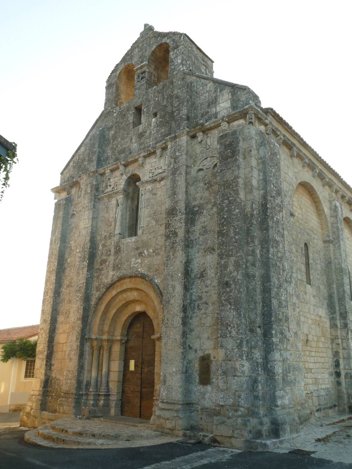 church